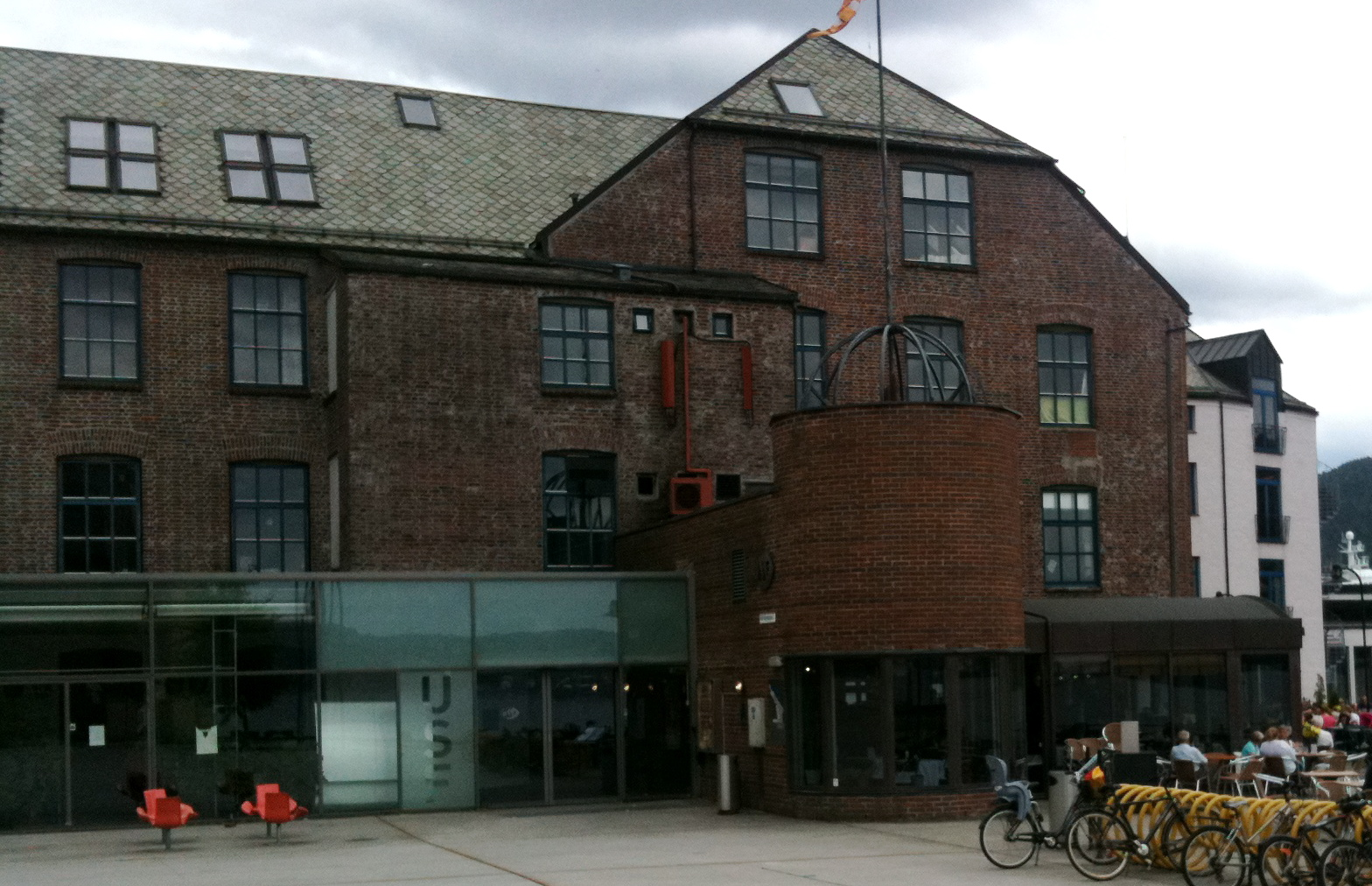 USF Verftet in Bergen, Norway